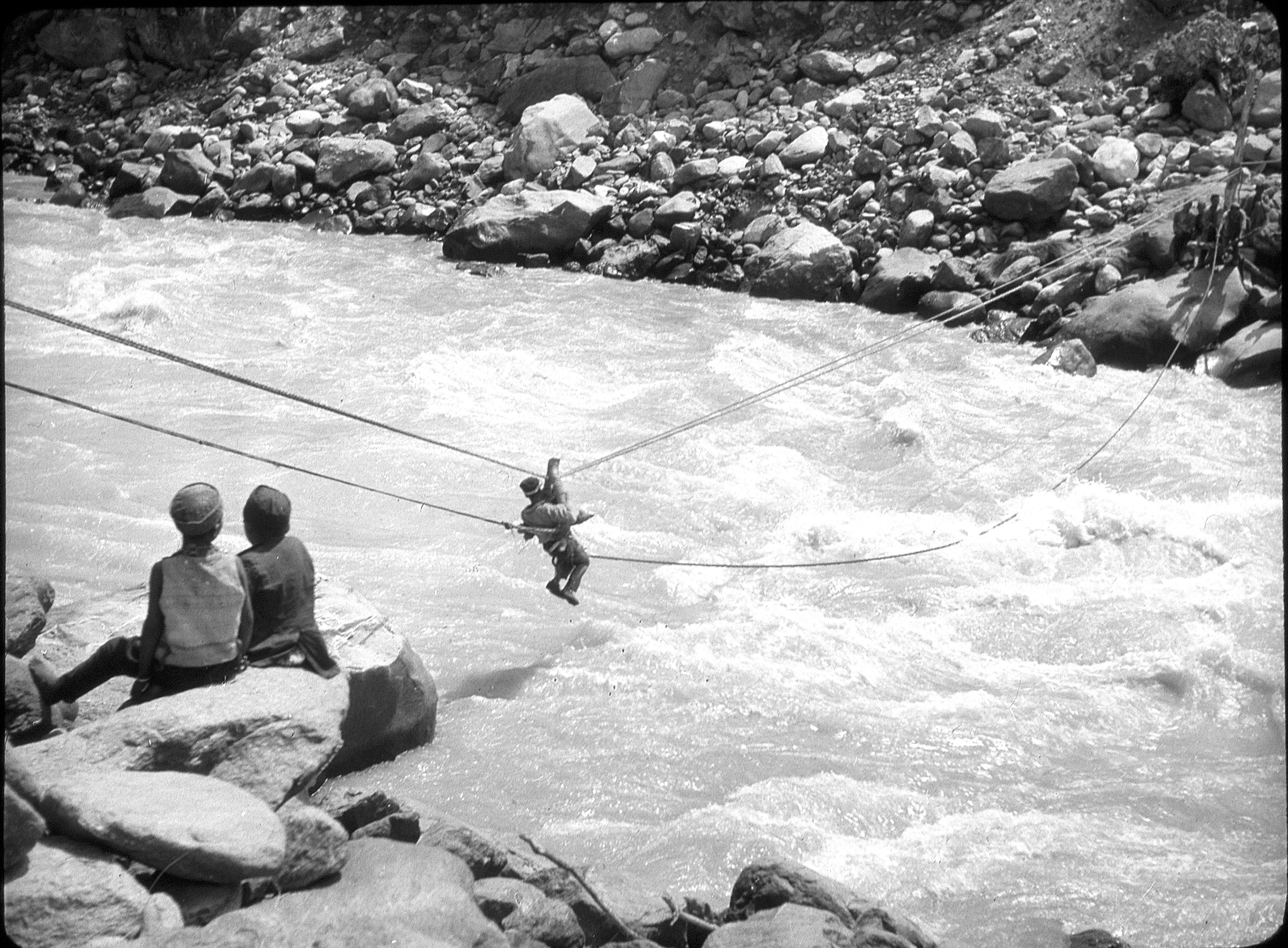 Schweizer Himalaya Expedition 1936: Seilbrücke: Nepalbrücke, Kalifluss oberhalb Darchula ca. 950 m